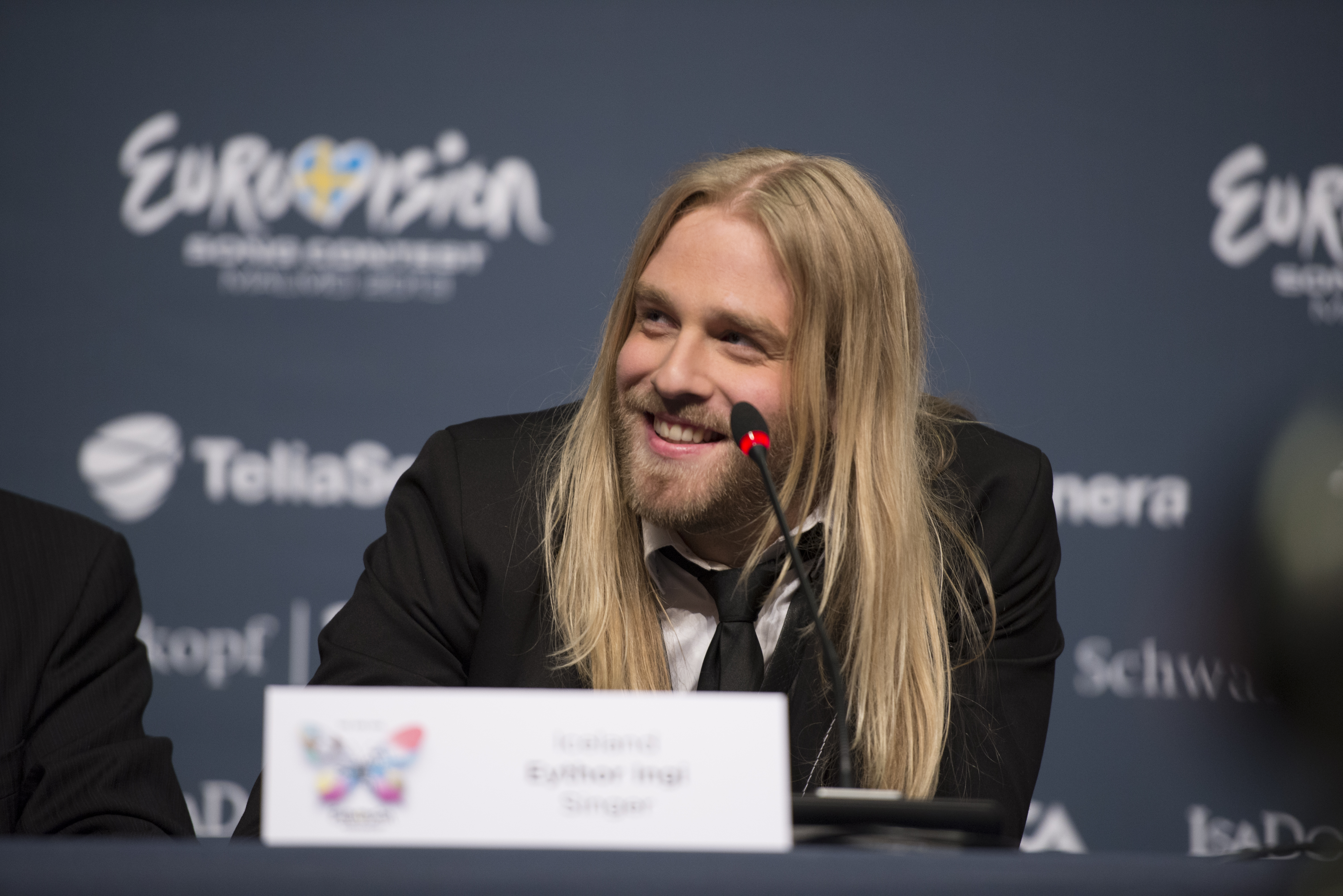 Eythor Ingi at a press conference during the Eurovision Song Contest 2013 in Malmö. (Help translate this text)